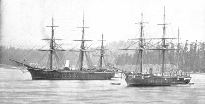 Photograph of British corvette Emerald class corvette HMS Opal (left) and Fantome class sloop HMS Fantome (right).